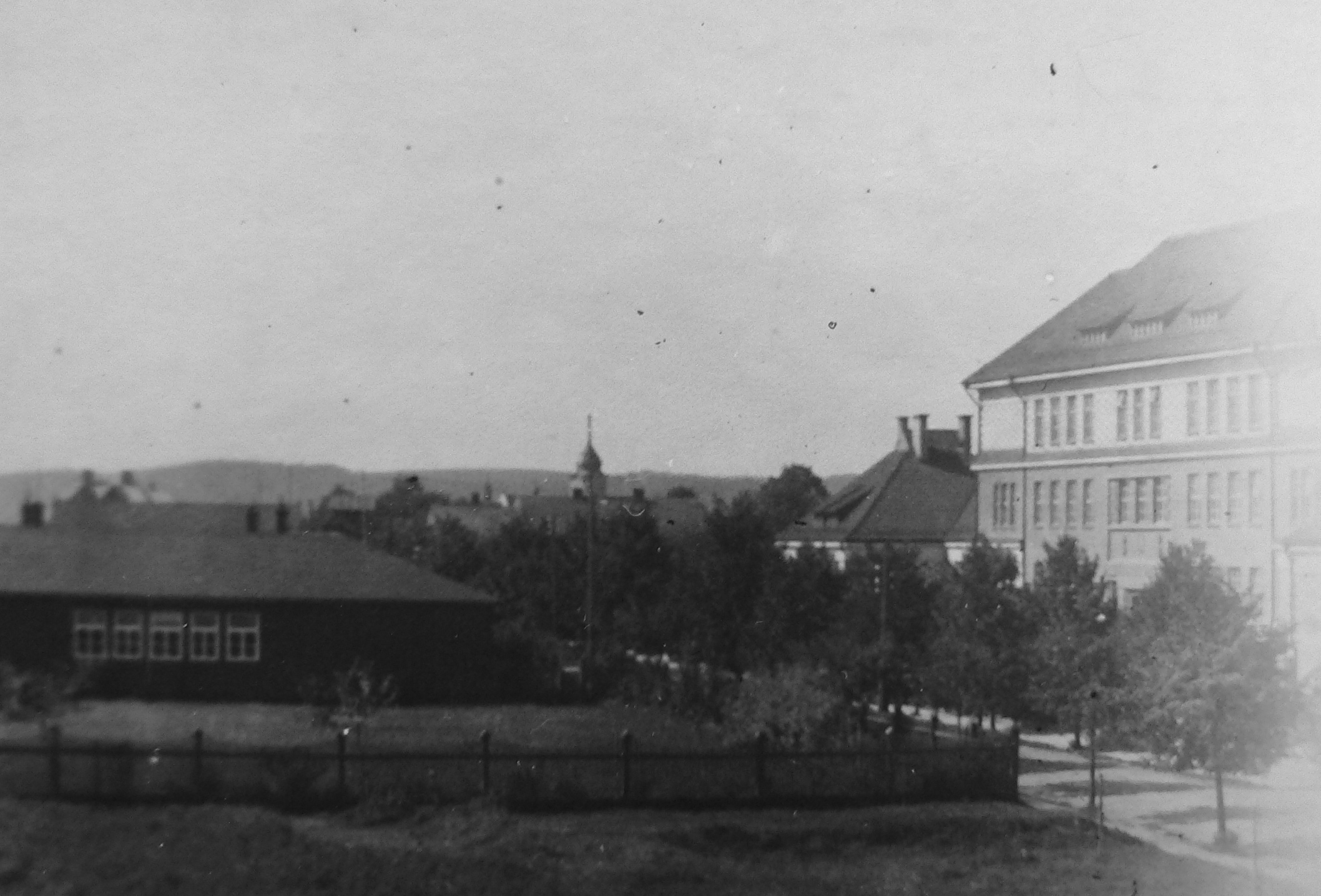 area around Gymnázium Josefa Kainara, wooden buildings of primary school and local church